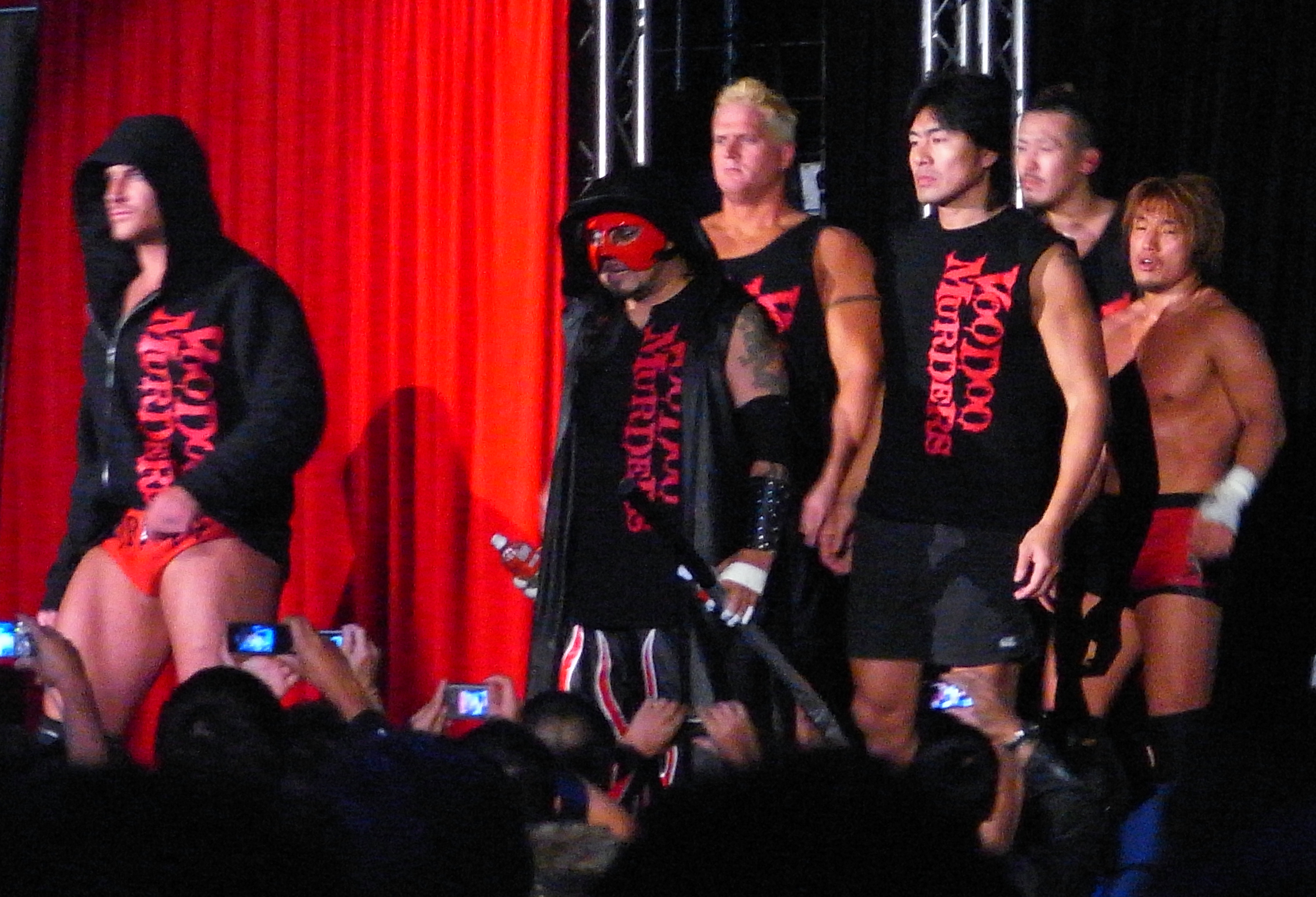 Voodoo Murders at AJPW "Pro-Wrestling Love in Taiwan 2010", the National Taiwan University Gymnasium, Taipei.